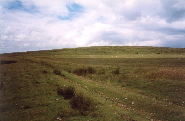 The old road over y Pygwn, Trecastell. The track is mostly good for cycling, and makes a good alternative to the A40 trunk road! The Roman Camps are on the hill, y Pygwn, in the background.